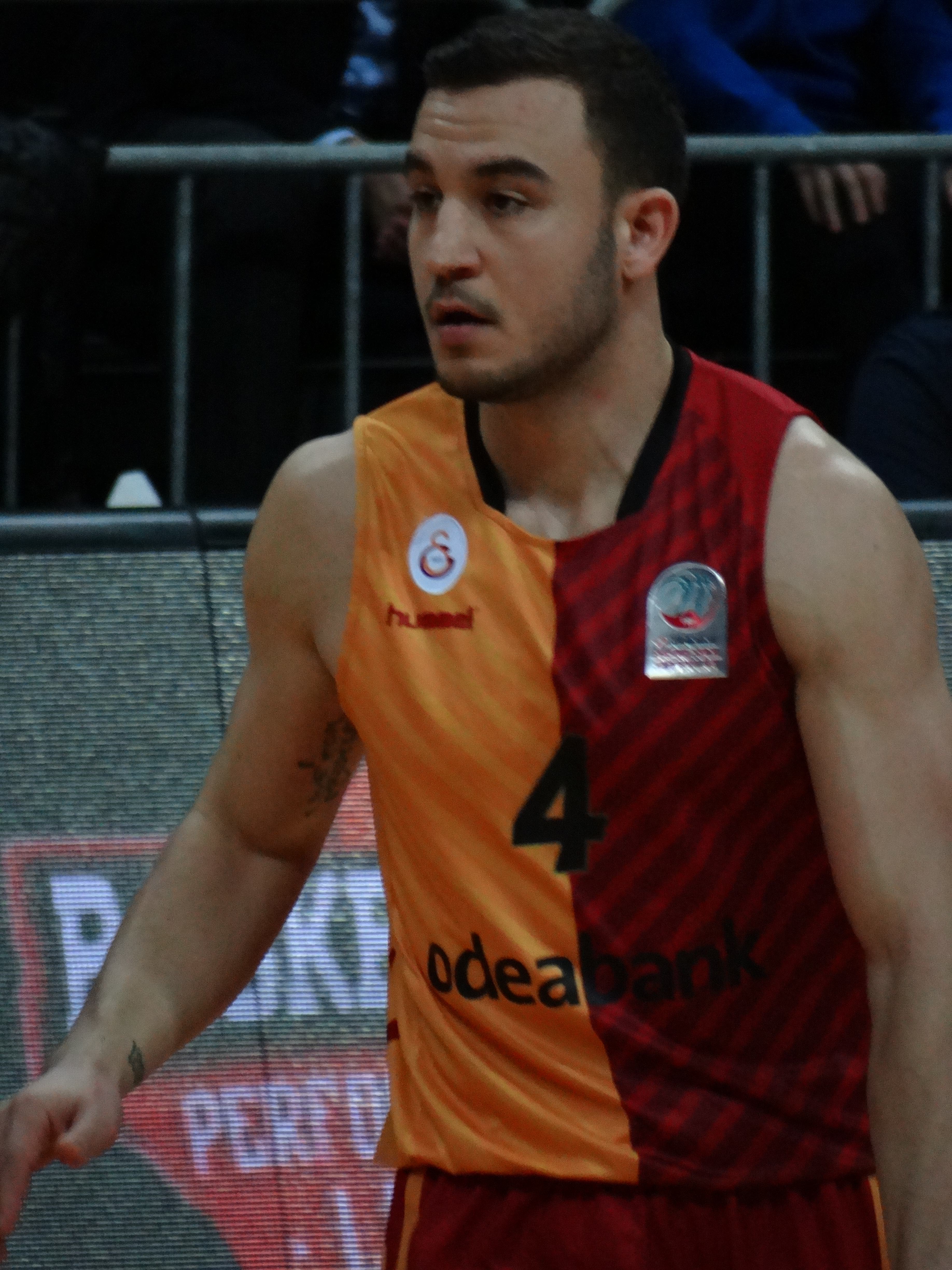 Mehmet Yağmur Fenerbahçe Men's Basketball vs Galatasaray Men's Basketball TSL 20180304